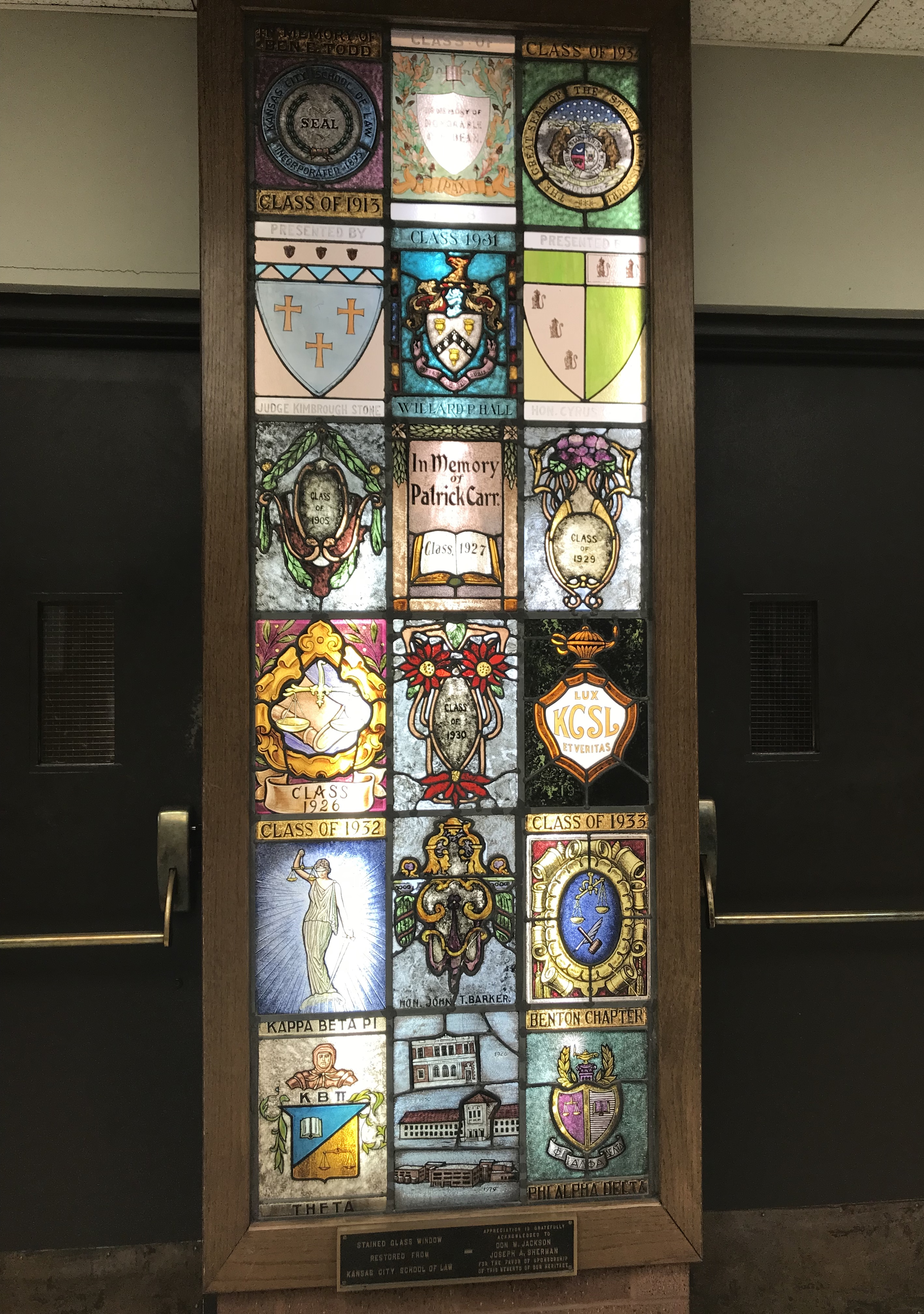 Stained glass window inside the UMKC School of Law depicting various classes and locations throughout the law school's history.